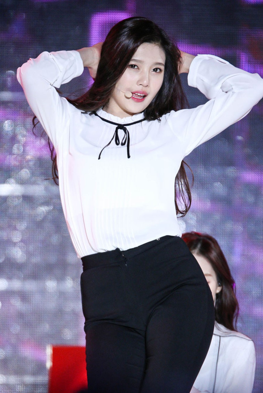 Joy Park performing on December 11, 2014.